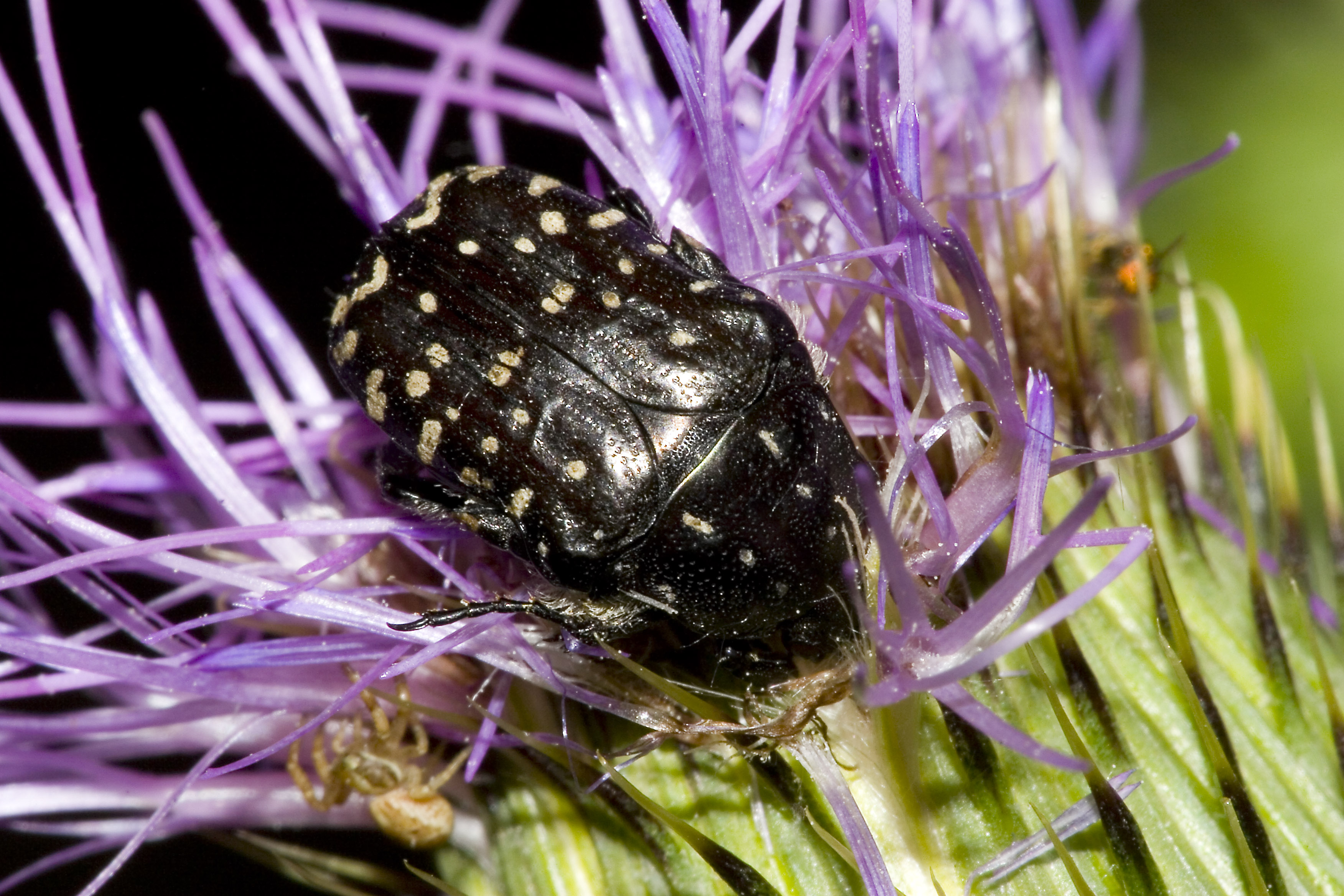 Please report references to .